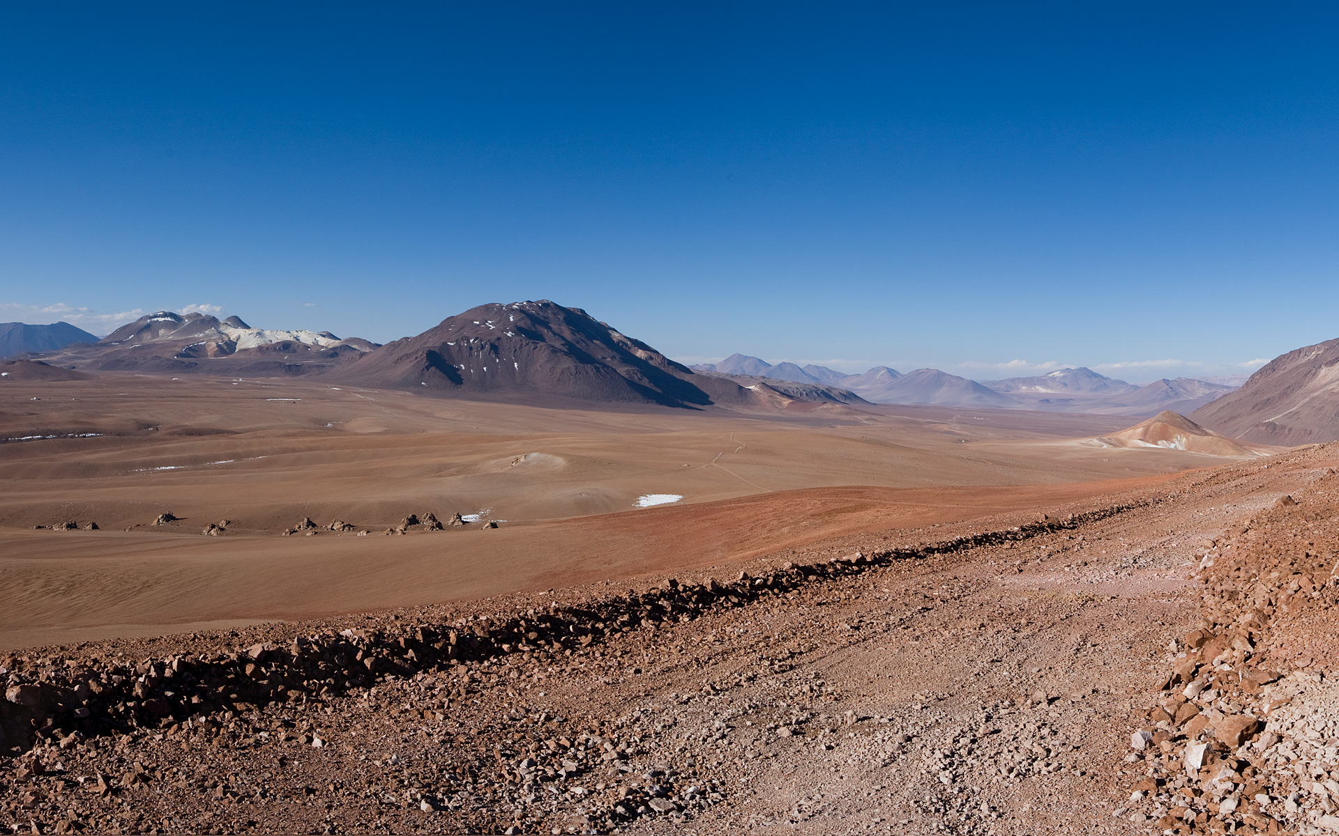 Some places on Earth can seem like alien environments, as this stunning panorama shows. It is not the strange surface of an exoplanet, but rather the Chajnantor Plateau in the Chilean Andes. This unearthly location is home to ALMA, the Atacama Large Millimeter/submillimeter Array. Chajnantor was chosen because the rarefied atmosphere above this very high site is so dry that, unlike at most other places on Earth, it is largely transparent to the wavelengths of light that ALMA is designed to detect. At the centre of the image, the darker, rounded shape of the peak of Cerro Chajnantor, 5600 metres high, can be spotted, followed slightly to the left in the far distance by the conical shape of the 5930-metre Licancabur volcano. The flat area in front, at an altitude of 5000 metres, is the Chajnantor Plateau, the ALMA Array Operations Site. Here the 66 ALMA antennas can be arranged in different configurations, where the maximum distance between antennas can vary from 150 metres to 16 kilometres. The clustered white peaks on the right in the foreground are penitentes, formed by the sublimation of snow in an extremely high altitude and very dry environment. This area of the Chilean Andes borders Bolivia and Argentina. ALMA will give astronomers an unprecedented window on the cosmos, enabling groundbreaking studies into areas such as the physics of the cold Universe, the first stars and galaxies, and even directly imaging the formation of planets. ALMA, which will begin scientific observations in 2011, is the largest astronomical project in existence and is a truly global partnership between the scientific communities of East Asia, Europe and North America with Chile. ESO is the European partner in ALMA. An amazing interactive virtual tour of Chajnantor is available at